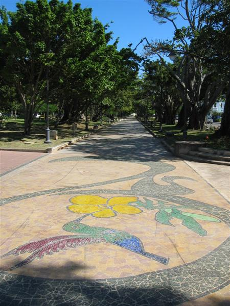 Picture of Luis Munoz Rivera park